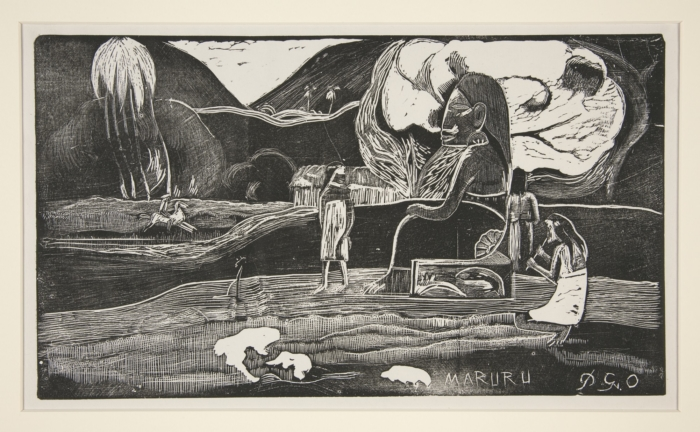 "Maruru; Merci - An Offering of Gratitude," wood engraving, by the French artist Paul Gauguin.20 cm x 34.6 cm (7 7/8 in. x 13 5/8in.) Courtesy of Yale University Art Gallery, Yale University, New Haven, Connecticut.